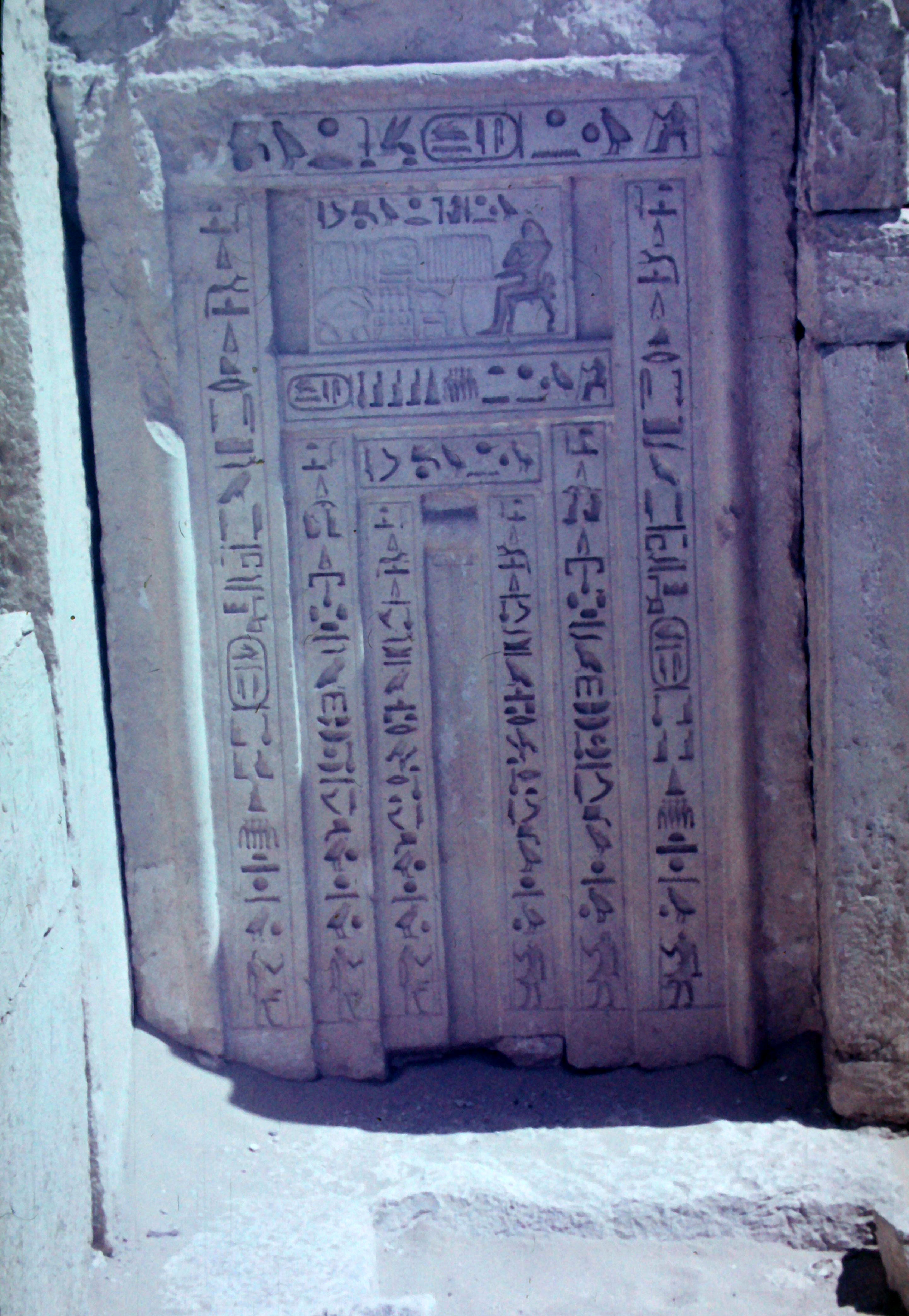 Fake mastaba door